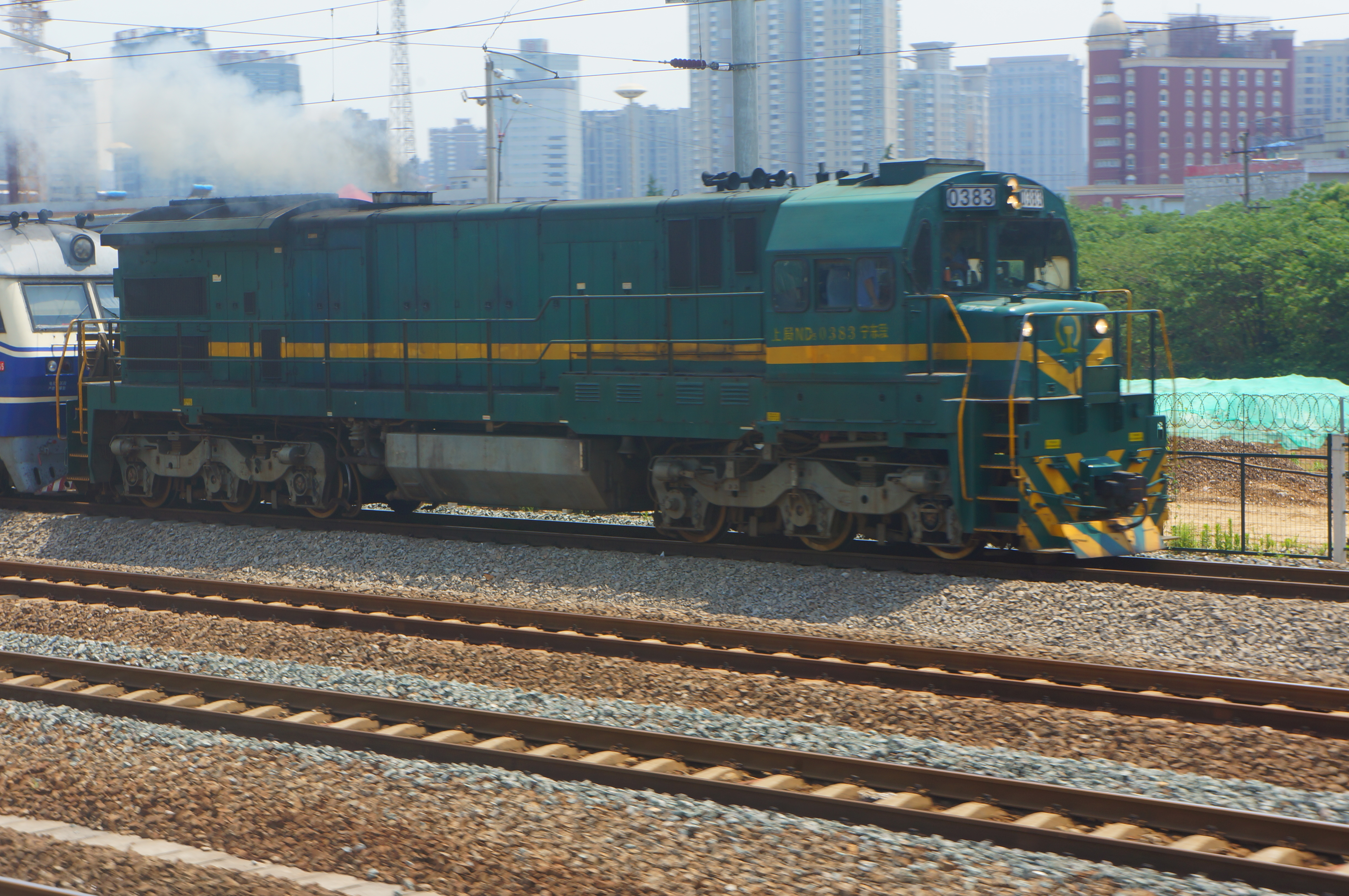 201705 ND5-0383 hauls K46 at Wuhu Station